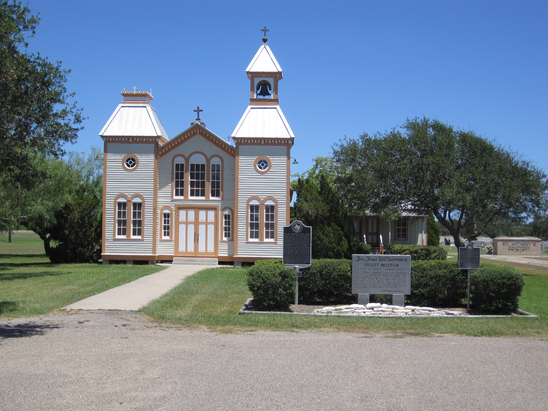 Image of the Old St. Anthony's Caltholic Church in Violet Texas. Site is on the National Register of Historic Places.